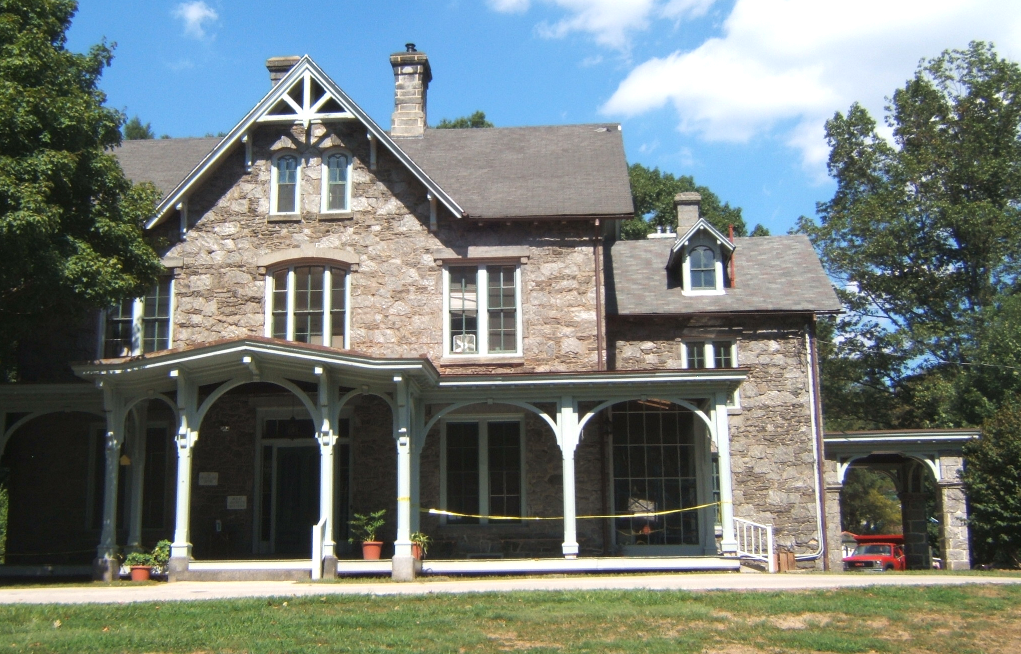 Francis Cope House, 1 Awbury Road, Philadelphia, Pennnsylvania 19138-1505. Built 1860, now offices of the Awbury Arboretum. Front view.